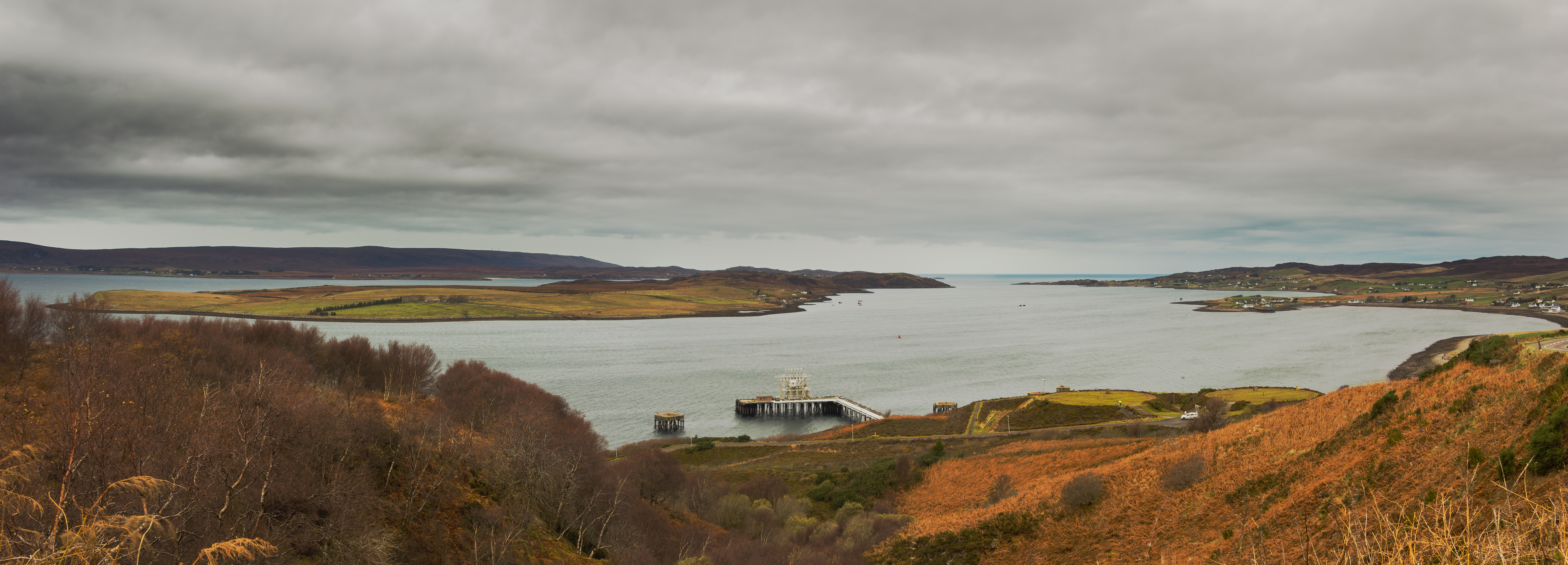 Panorama overlooking Loch Ewe. The NATO Petroleum, Oil and Lubricants (POL) depot can be seen in the foreground; the villages of Aultbea, Ormiscaig and Mellon Charles are visible along the Western shore of the loch (right hand side); North of the POL depot is the Isle of Ewe and in the background on the left hand side behind the island, part of the Eastern shore are visible, including the beach at Firemore.